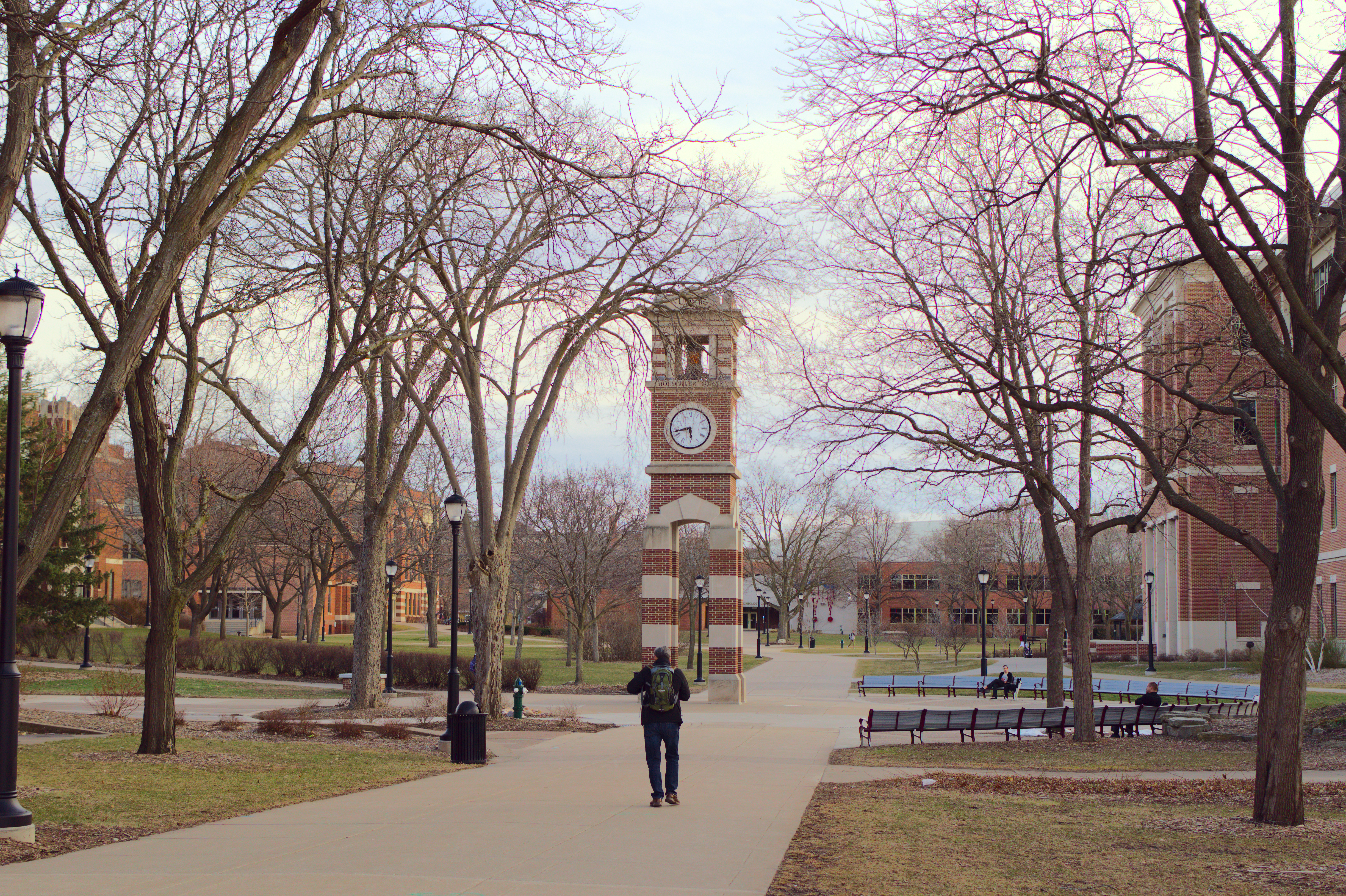 One of the main walkways of campus